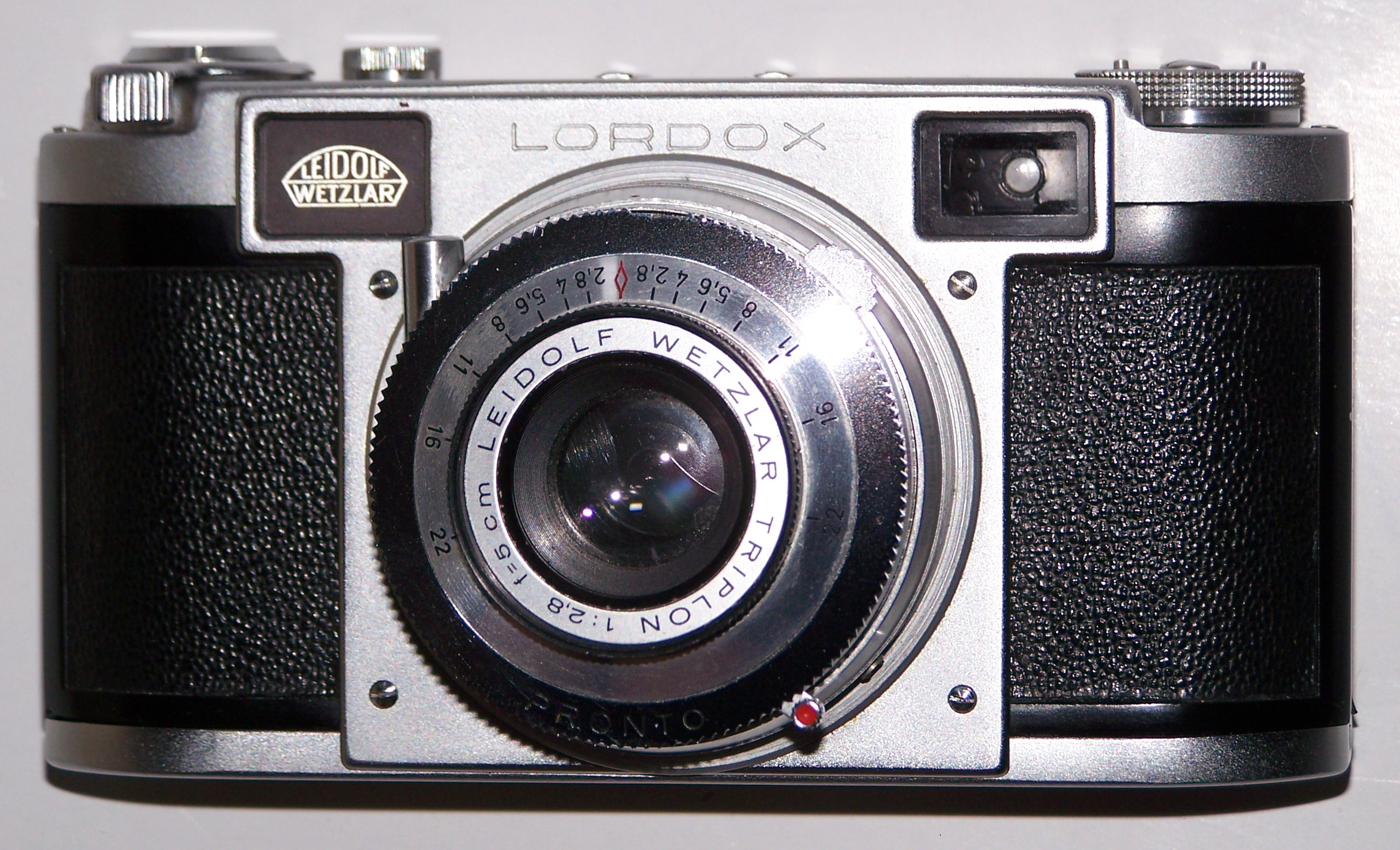 Please see filename above